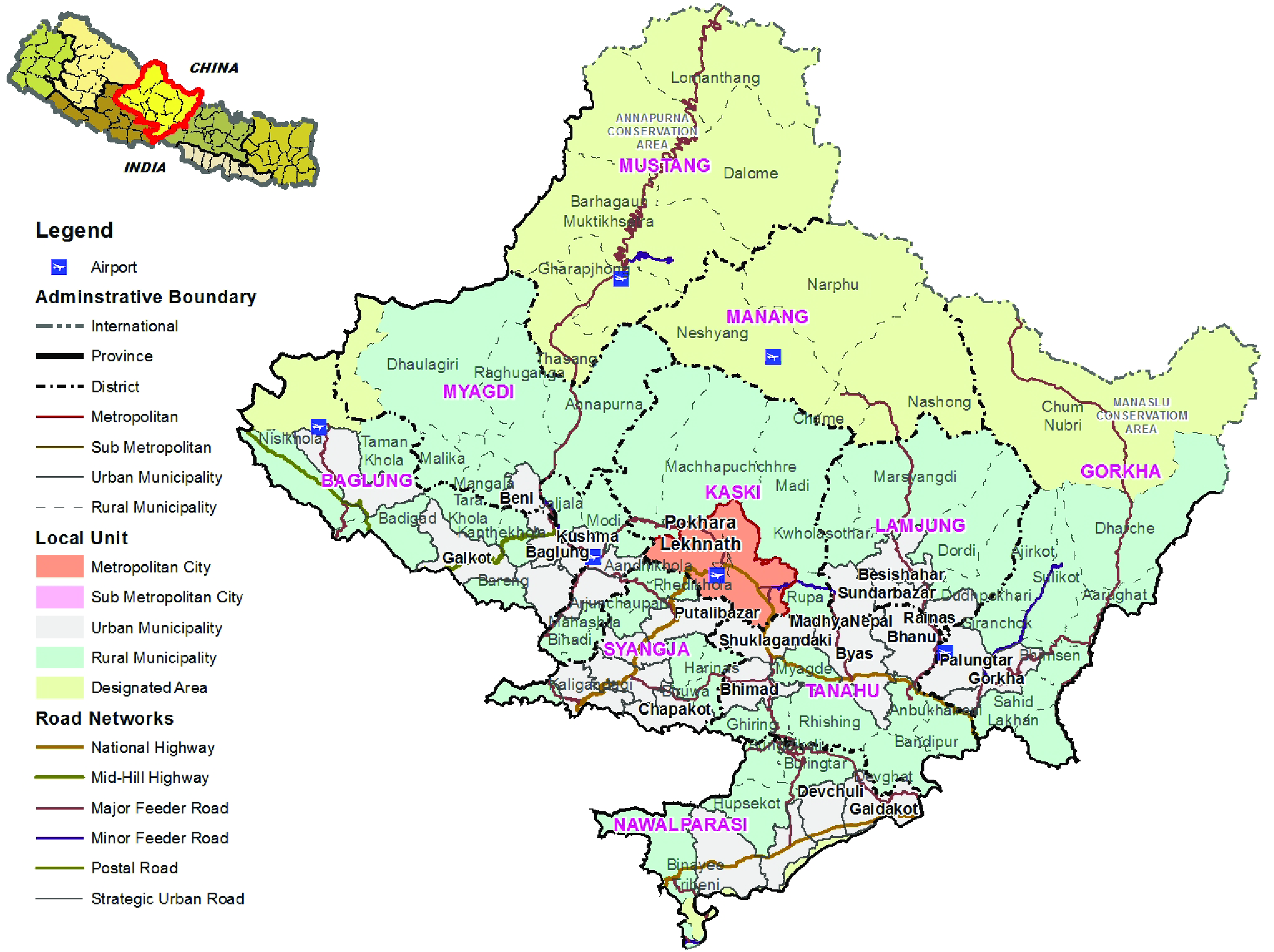 Gandaki pradesh